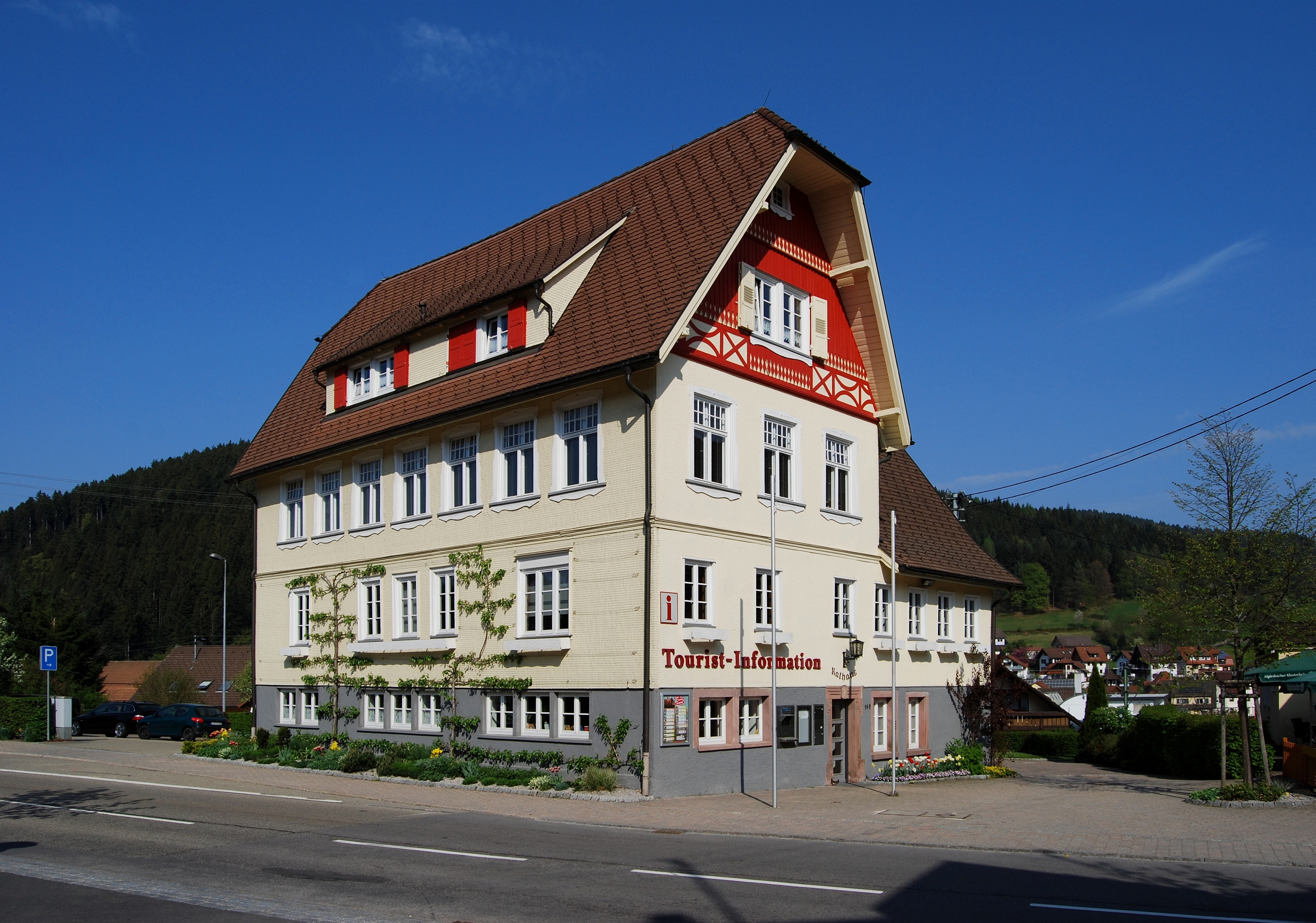 The town hall of the village Klosterreichenbach, part of Baiersbronn, Black Forest, Baden-Württemberg.